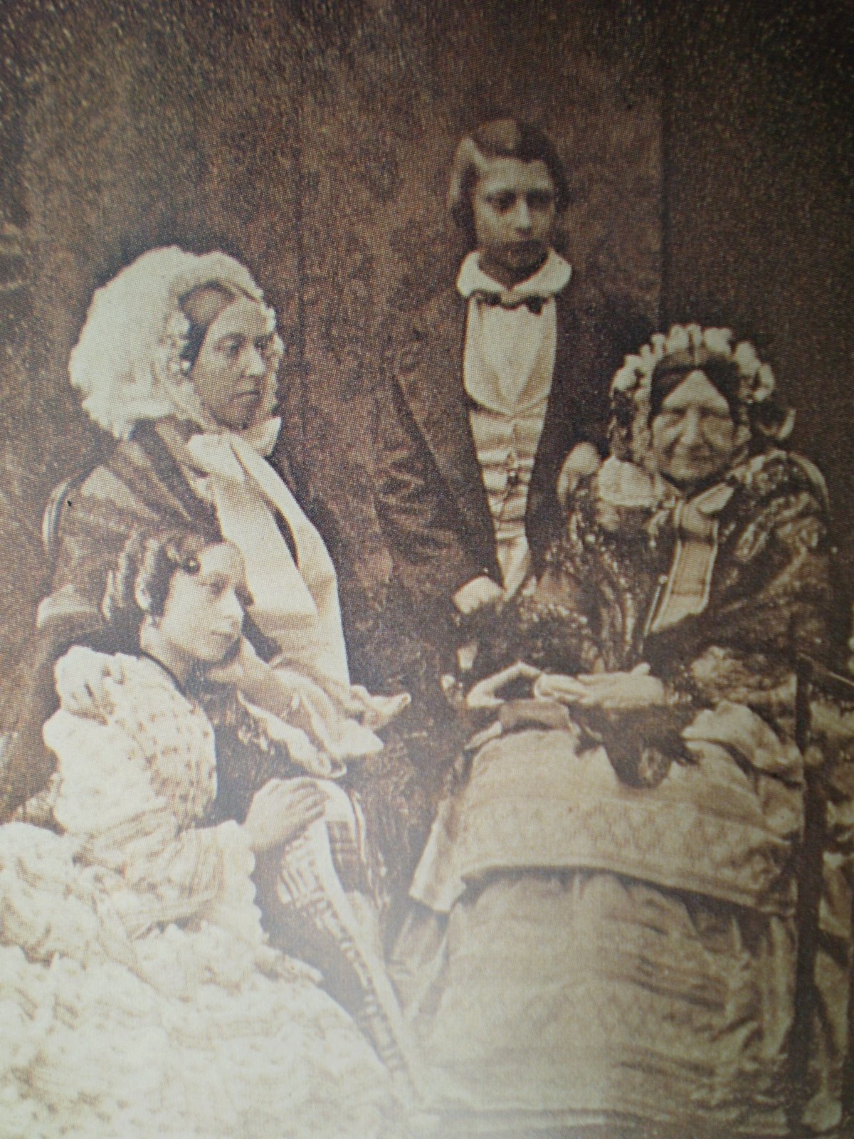 Daguerreotype of Queen Victoria, Princess Alice, the Prince of Wales (later King Edward VII) and Princess Mary, Duchess of Gloucester at age 80.